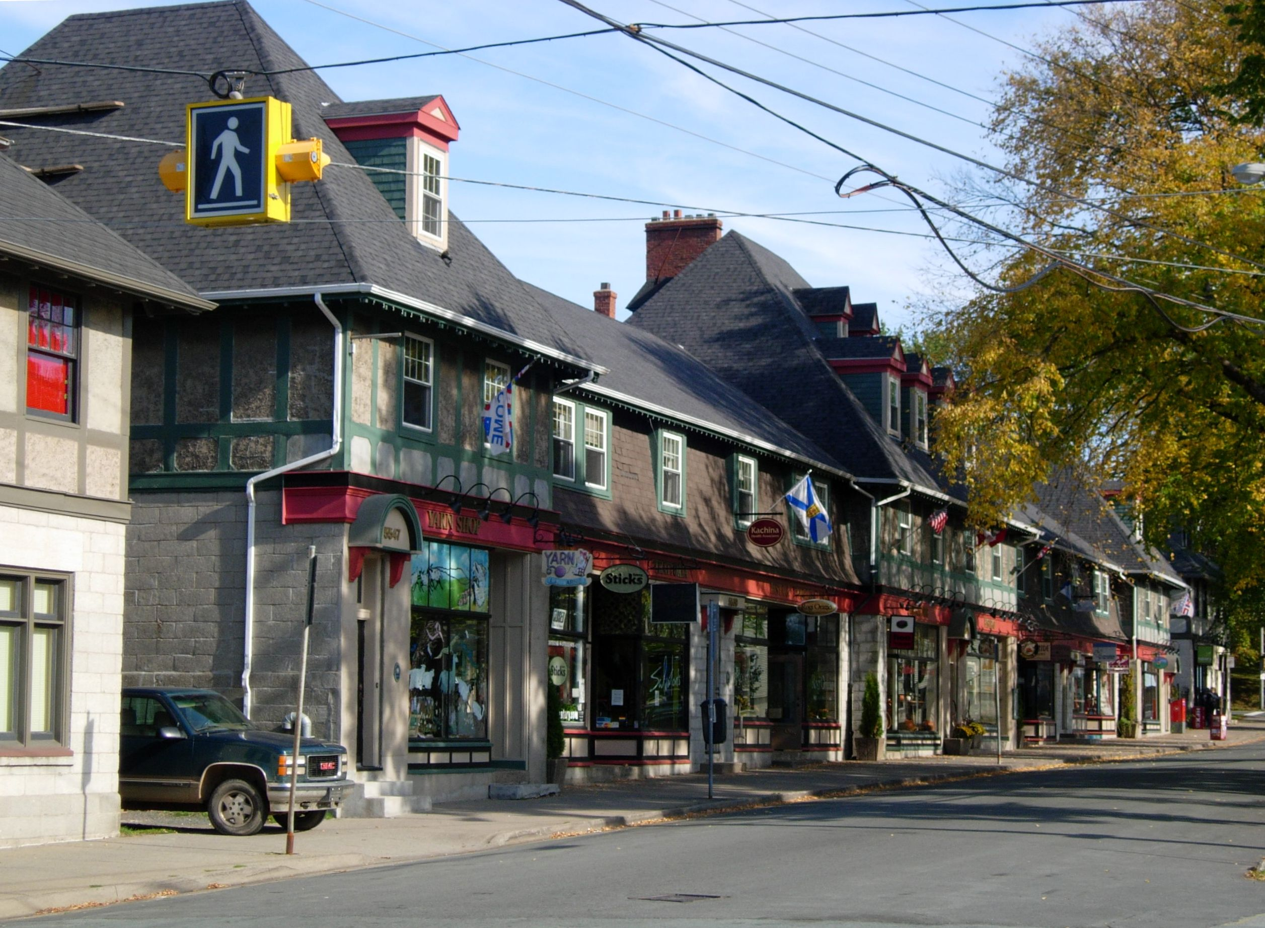 part of the Hydrostone District urban planning scheme, 1917-20.